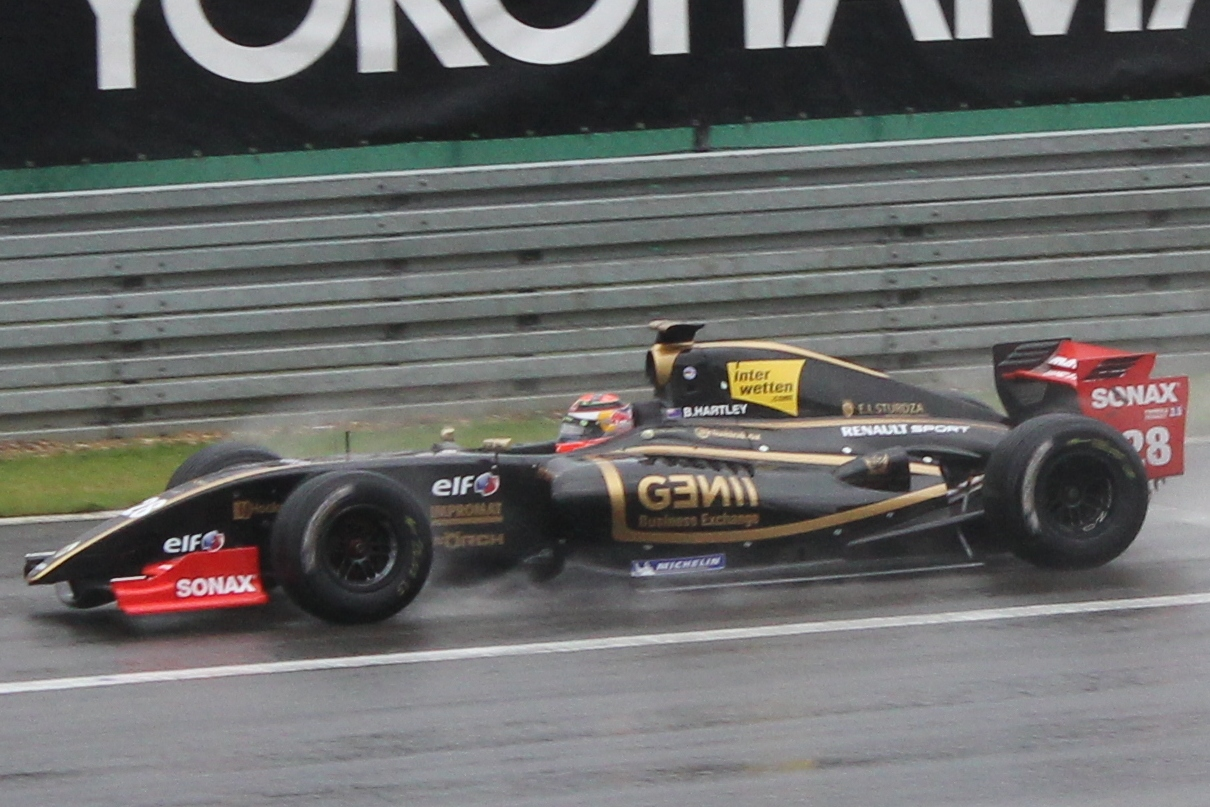 Brendon Hartley at the 2011 Nürburgring World series by Renault round